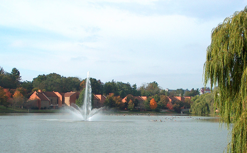 by Nathaniel Stickley on Saturday, October 11, 2003, 4:53:42 PM